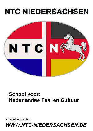 NTC-School